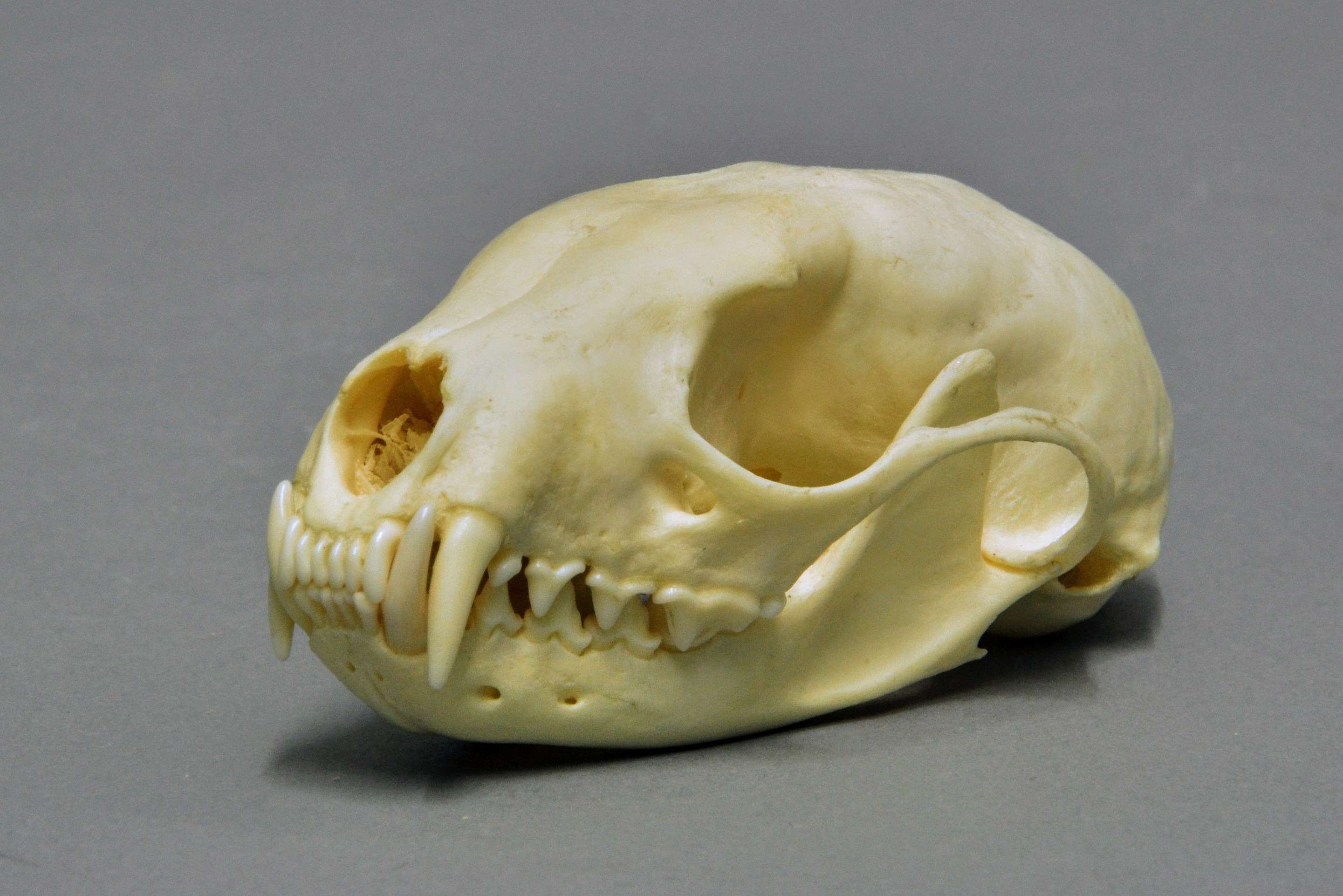 European pine marten Martes martes , skull, Coll. Museum Wiesbaden